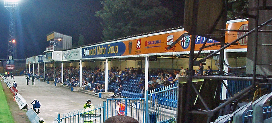 Compton Street Stand, Recreation Ground. Image cropped from original at flickr.